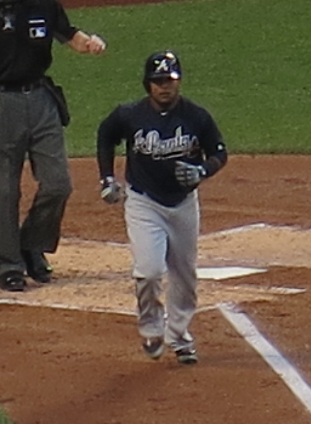 Erick Aybar of the Atlanta Braves takes an at-bat, June 17, 2016.